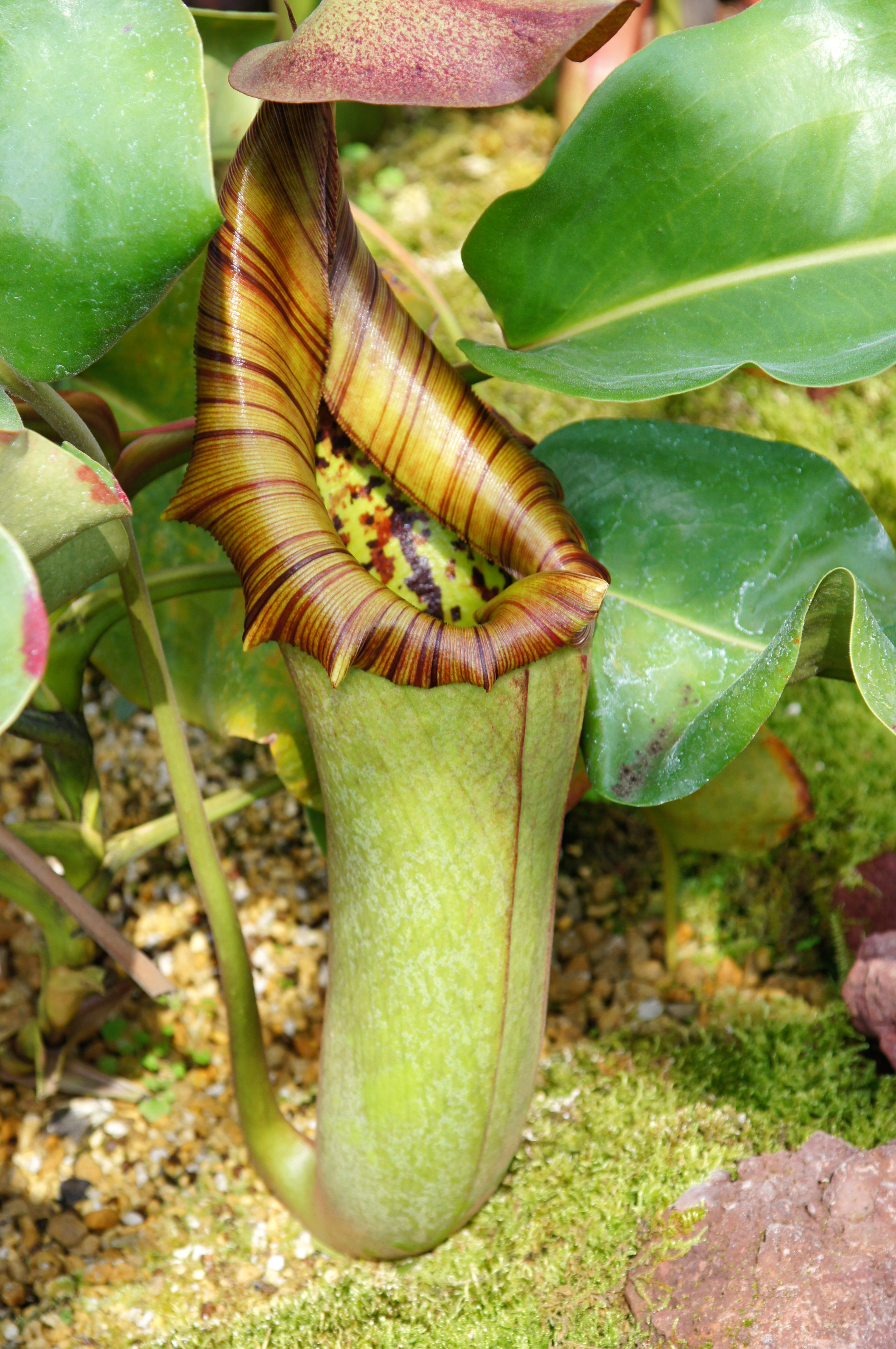 Hyogo Prefectural Flower Center in Kasai, Hyogo prefecture, Japan.